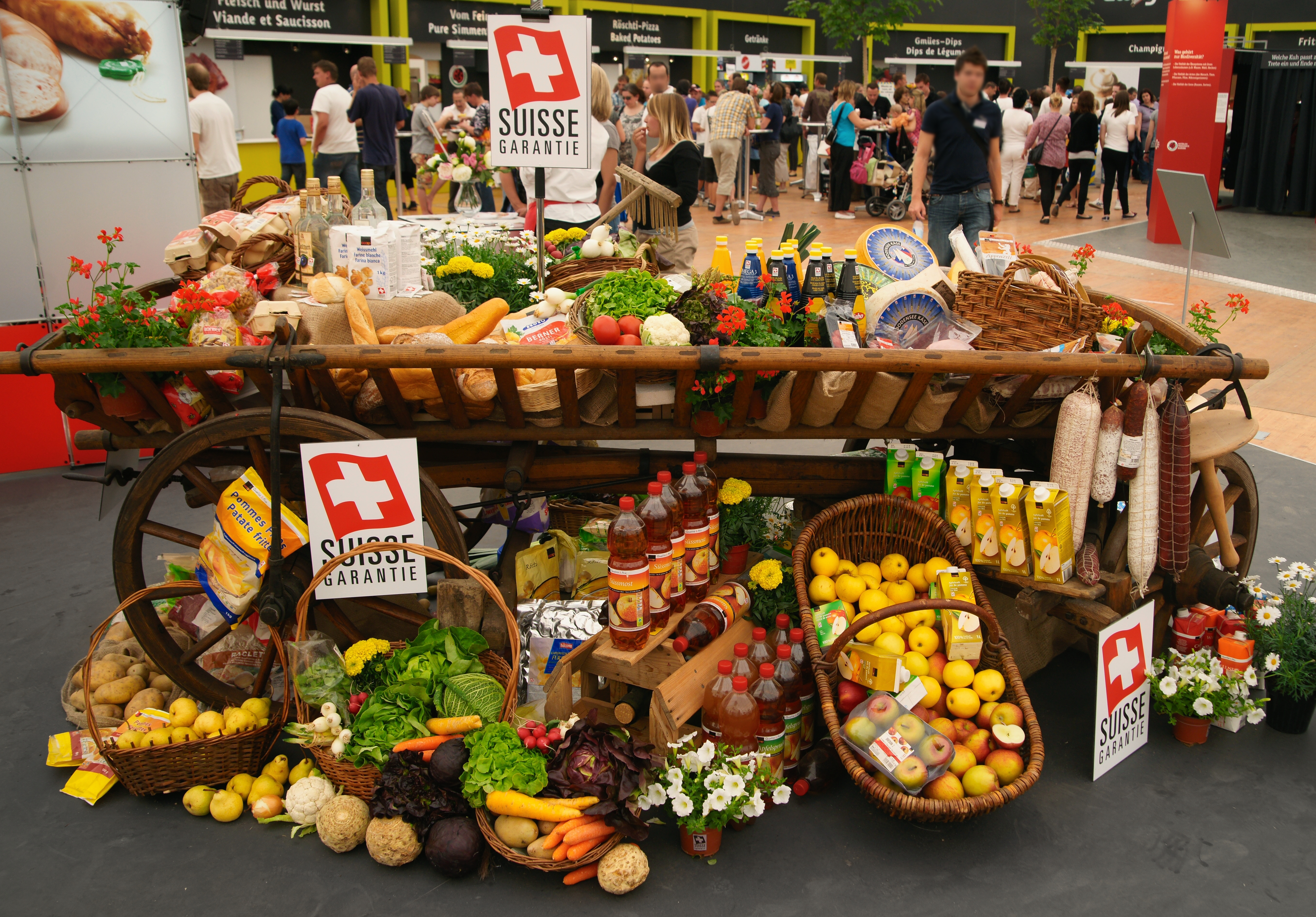 Cart with Swiss foodstuff